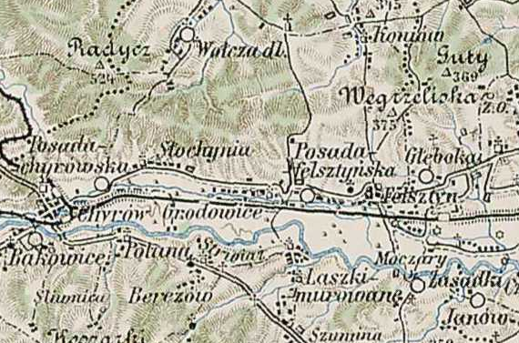 Skelivka (Ukrainian: Скелівка